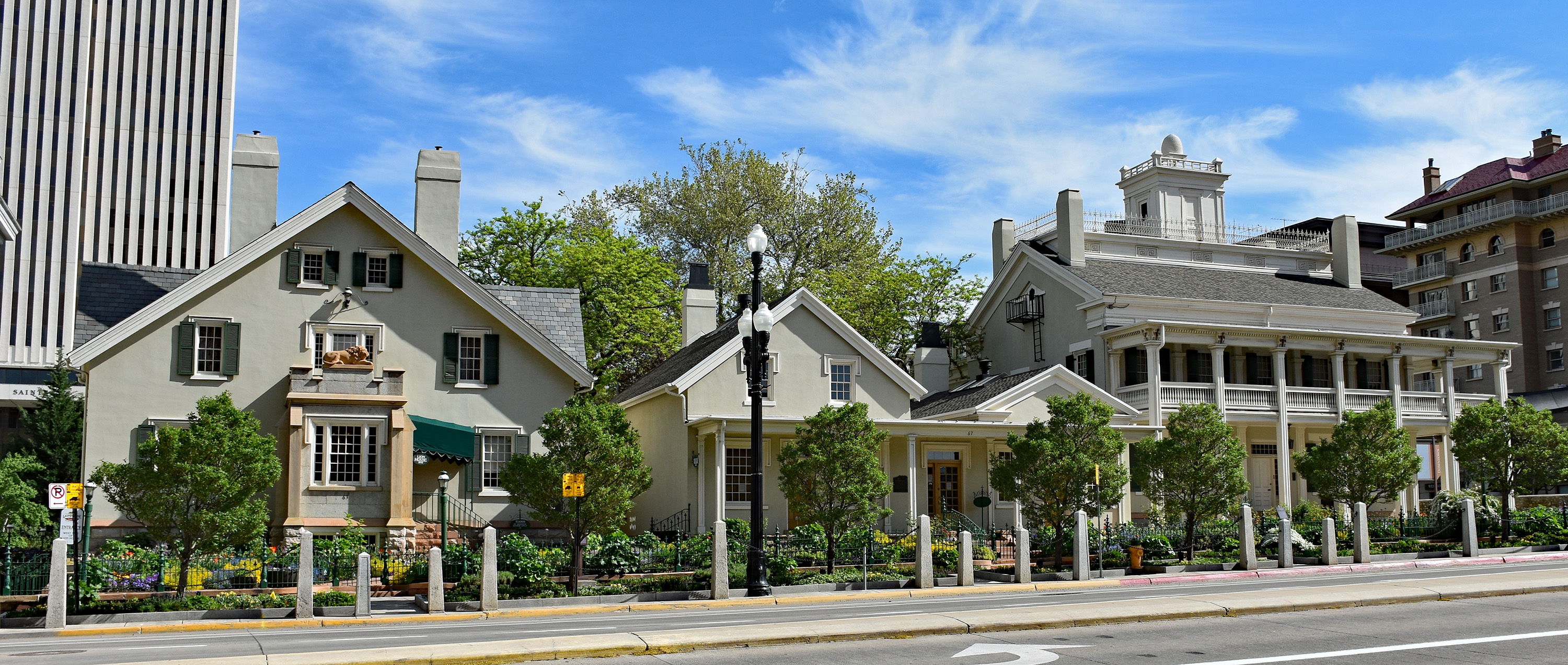 The Brigham Young Complex in downtown Salt Lake City, Utah. From left to right: Lion House, Church Office, Church President's/Governor's Office, and Beehive House.